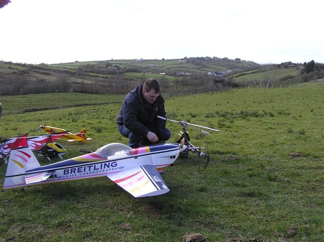 Getting ready to fly, Garvaghy It was amazing the these model aircraft could perform today as it was very windy